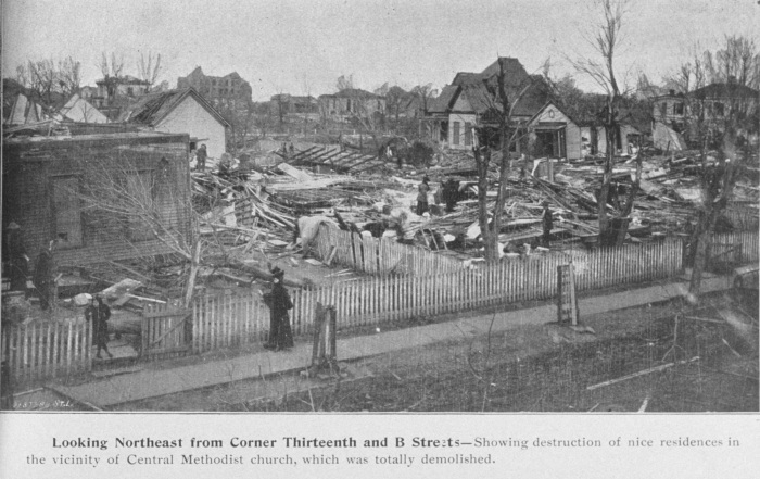 Damage from a tornado which struck Fort Smith, Arkansas on the night of January 11, 1898. From NOAA Public Domain Photo Archive